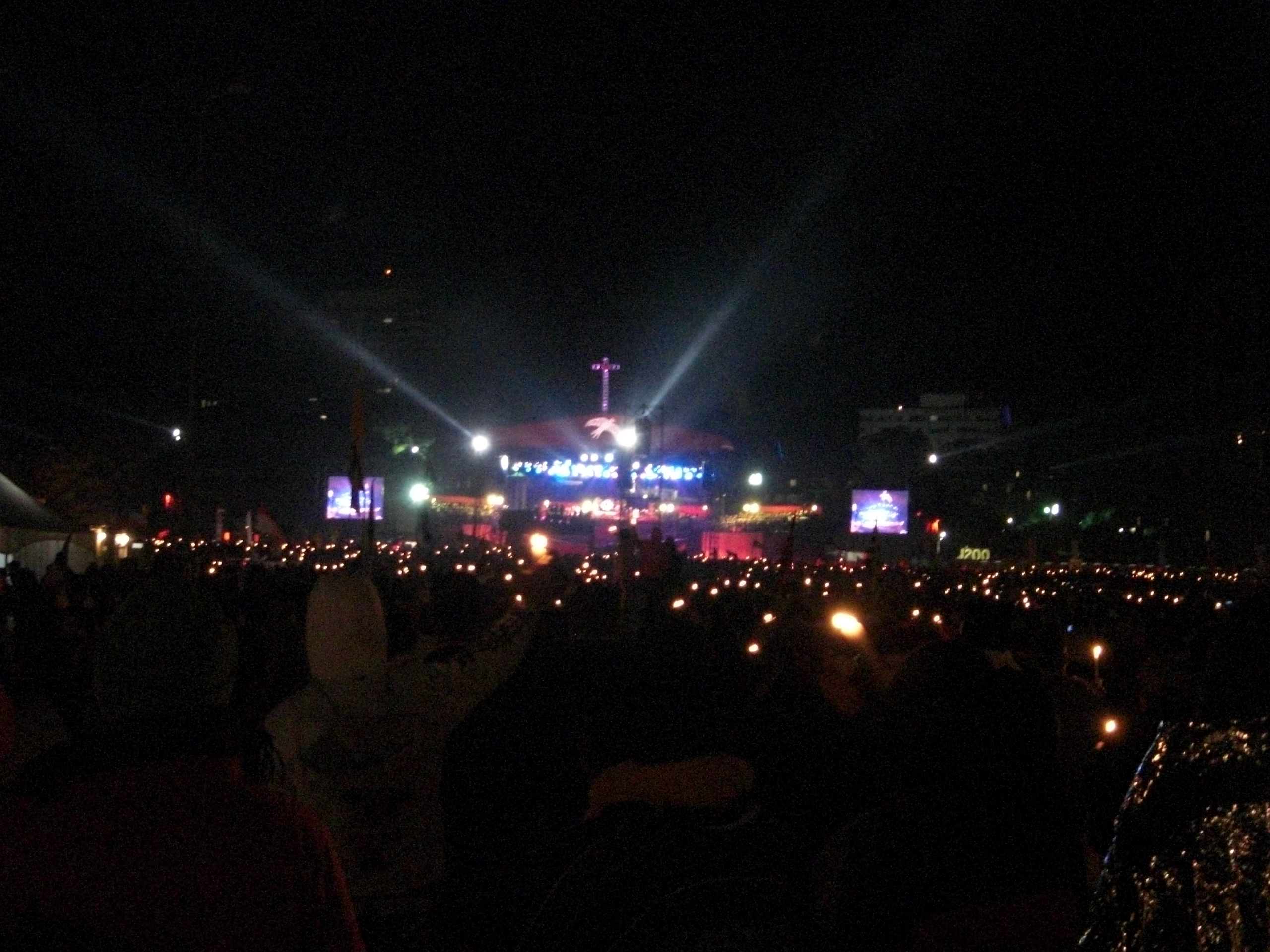 World Youth Day 2008 Sydney: Main stage on Southern Cross Pricinct during the evening vigil prior to the final mass.